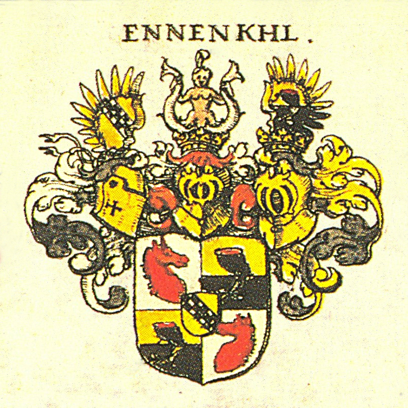 Coat of Arms of Ennenkel